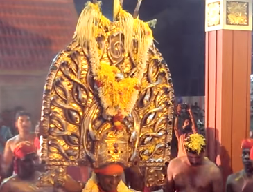 Bhadrakali Devi Thirumudi